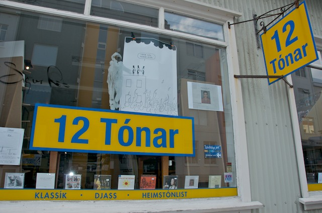 A fine place to buy music in Reykjavik with a shop in Copenhagen too. The poster says "Cheers to you gentleman". Reykjavik Iceland - April 2009